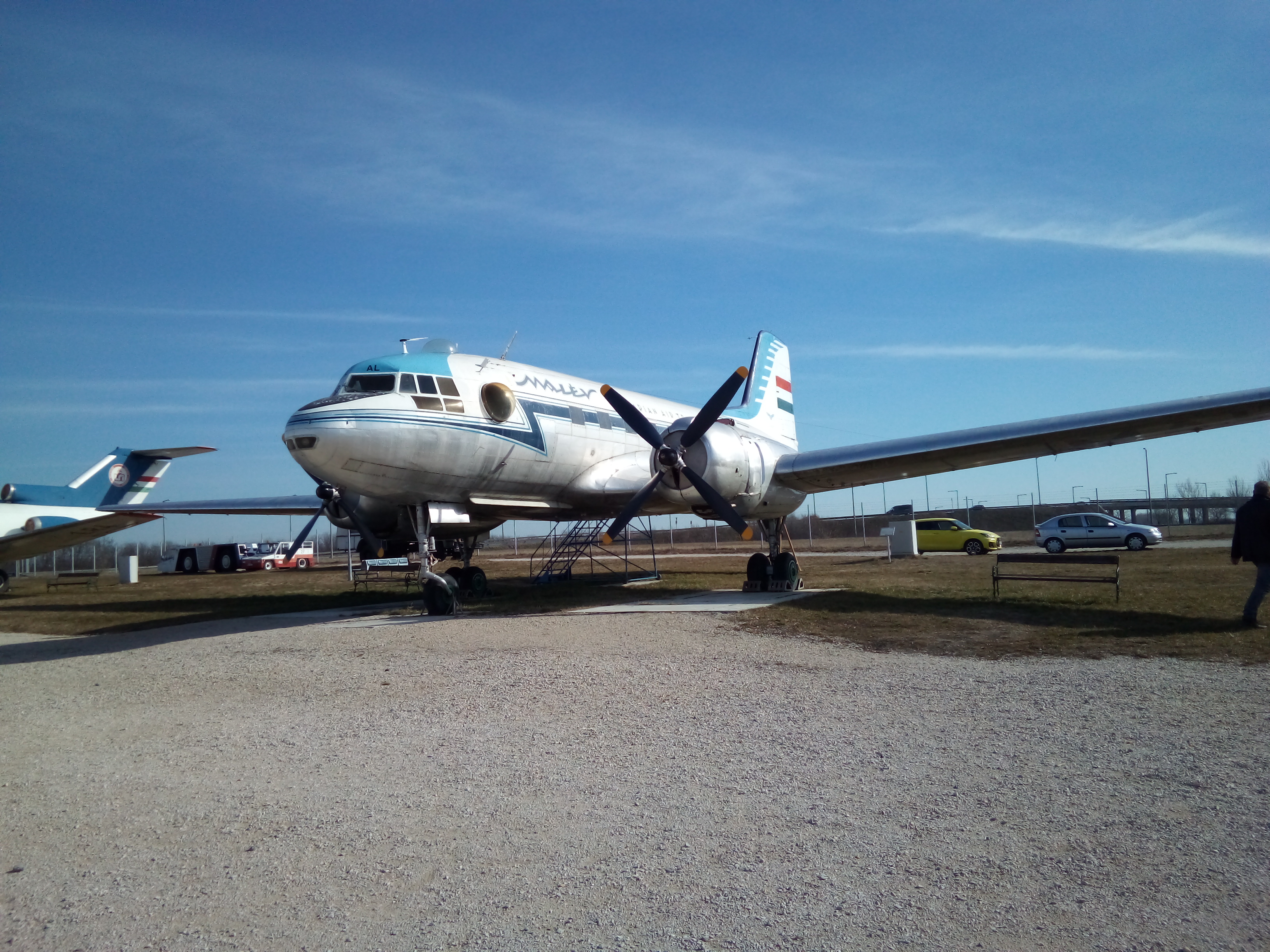 Il-14T